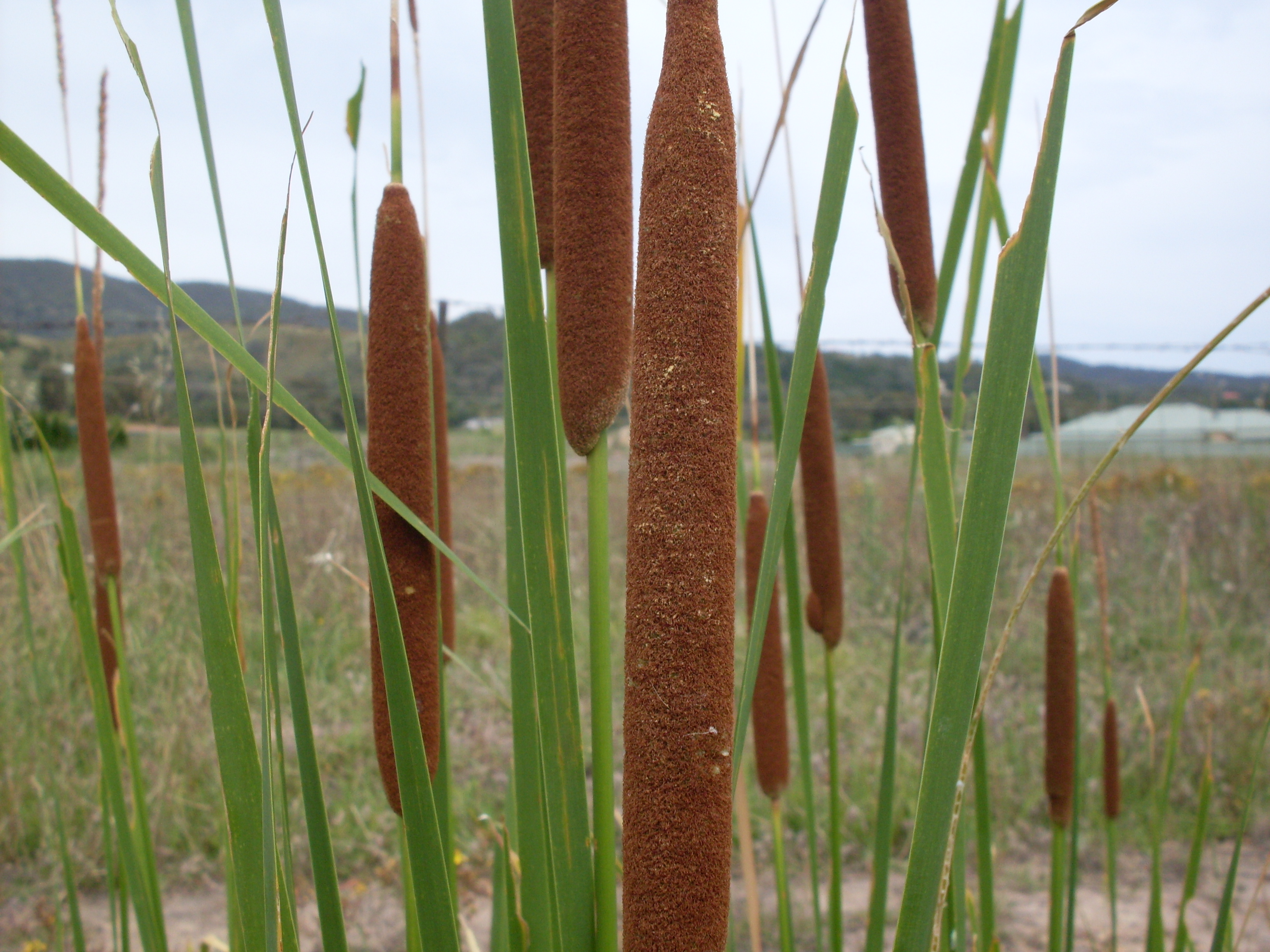 Broadleaf Cumbungi (Typha orientalis)